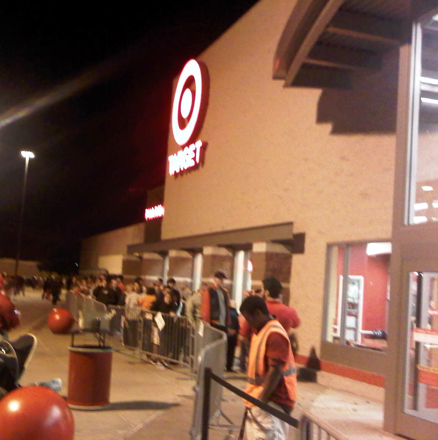 Customers queuing in front of target super store in Plano before black friday store opening at 10pm on thanksgiving day